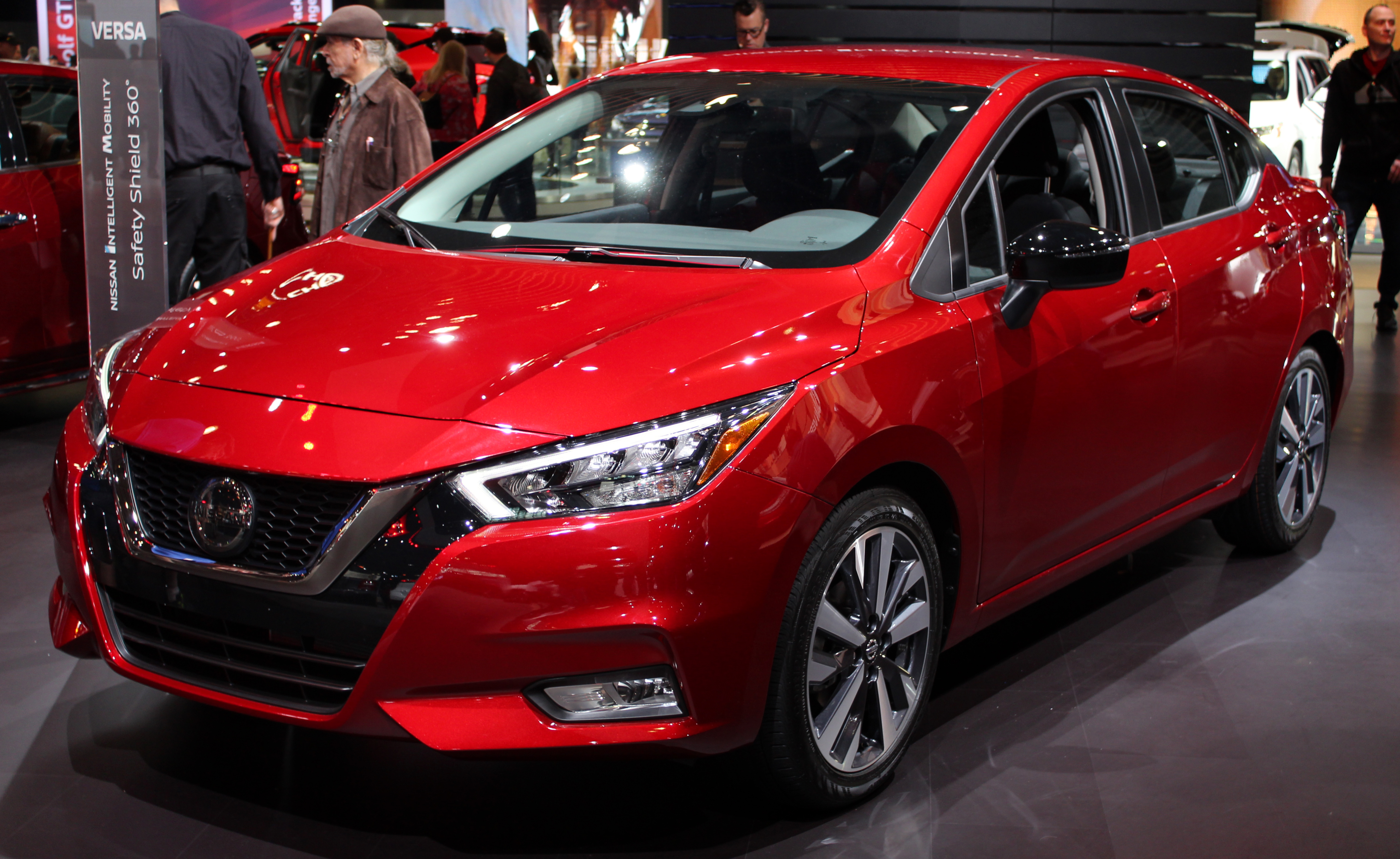 A 2020 Nissan Versa SR photographed during the 2019 New York International Auto Show, in Hudson Yards, Manhattan, NYC